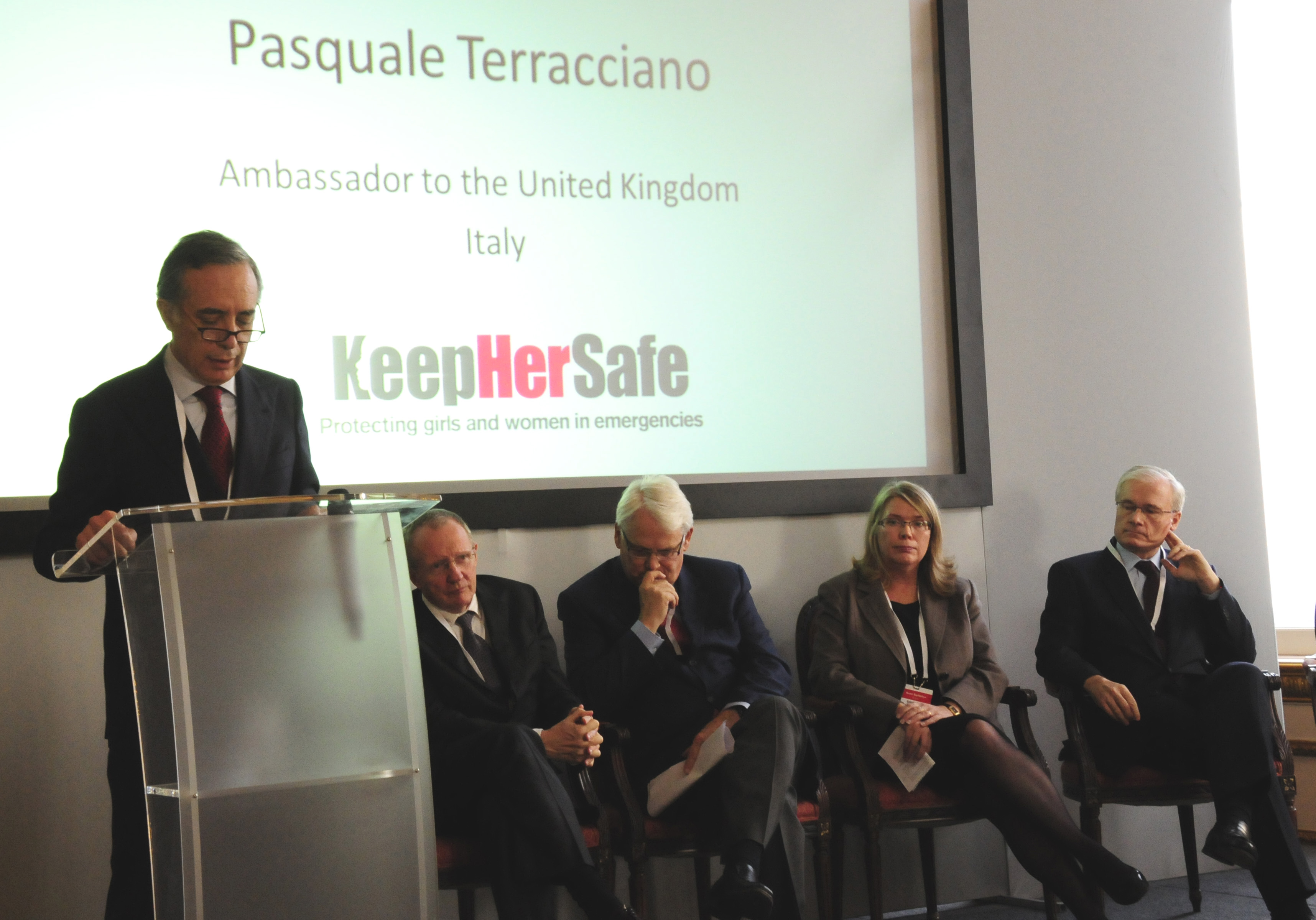 Leading humanitarian agencies met in the UK today to endorse a global commitment that will prioritise the protection of girls and women from violence and sexual exploitation in emergency situations. International Development Secretary Justine Greening and Sweden’s International Development Minister Hillevi Engström co-chaired a high-level event in London for governments, UN heads, international NGOs and civil society organisations to agree a fundamental new approach to protecting girls and women in emergency situations, both man-made and natural disasters. Read the news story: Pictures: Sheena Ariyapala/DFID